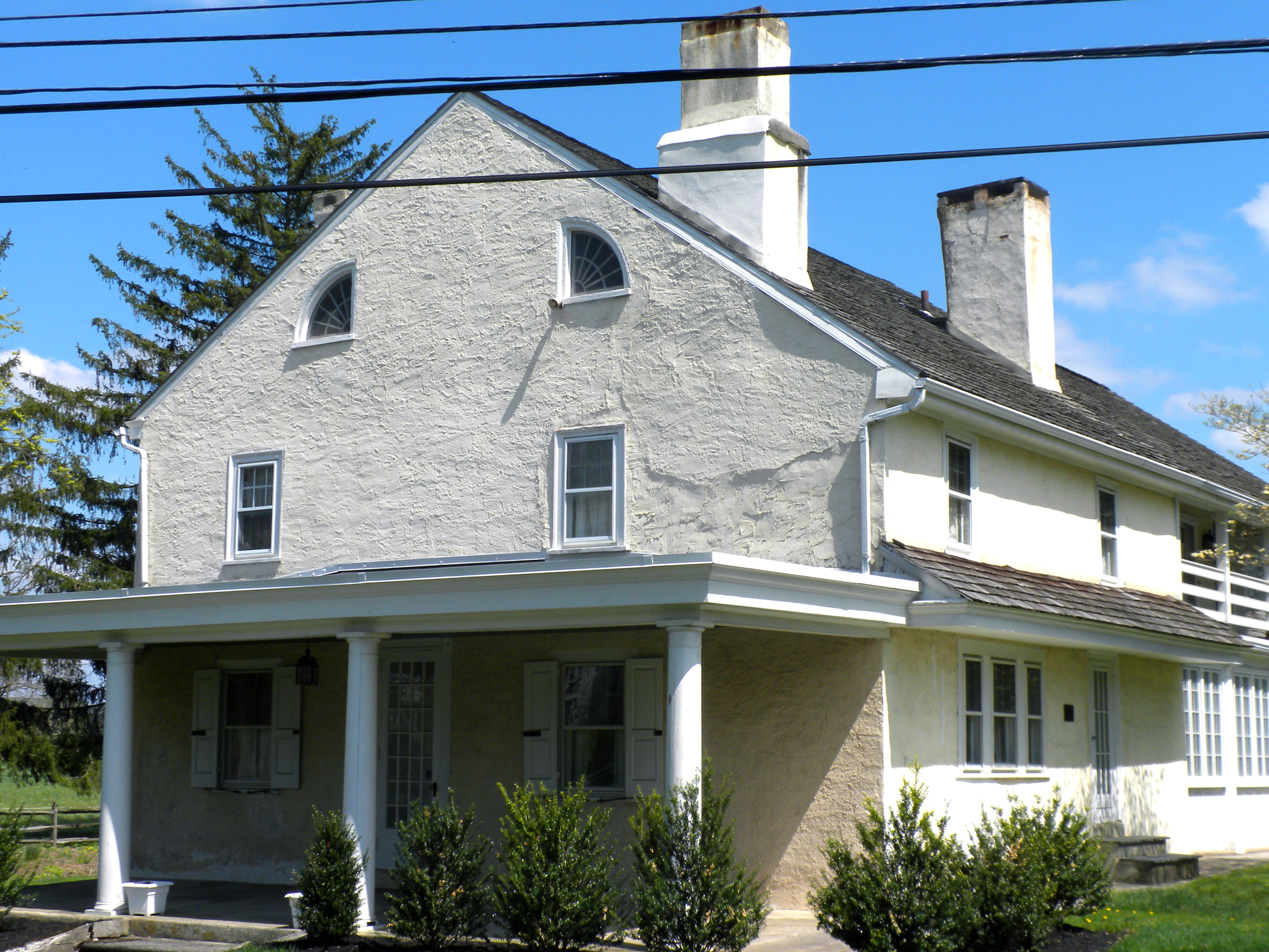 Evan Lewis House on NRHP since August 2, 1984. At 117 North Ship Road near Exton, West Whiteland Township, Chester County, PA. Nice old house near a creek, new subdivision across the street. Another NRHP house should be 100 yards south but is limited by No Trespassing signs. Fairly close to Ship Inn, also on NRHP